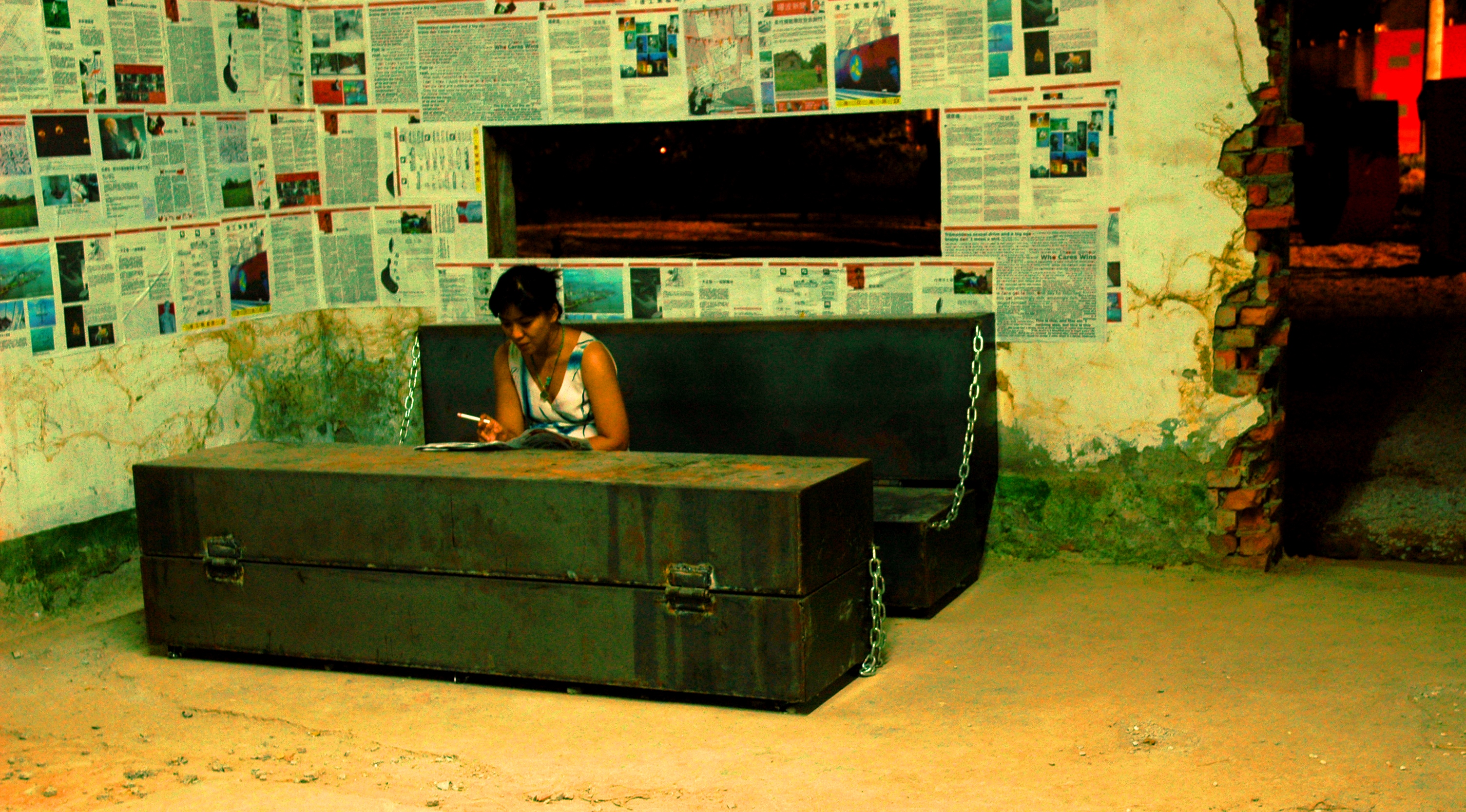 Nikita Wu at the Future Pavillion of the Taiwan Desing Expo 2005 proof-reading the free newspaper PePo as the editor.